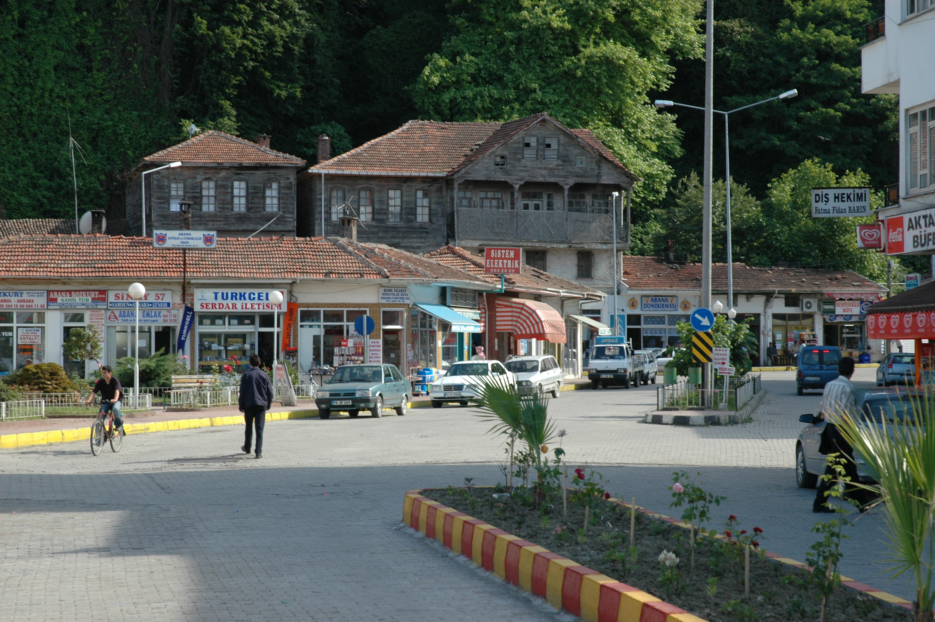 Abana is a tiny town at the Black Sea coast, some 20 kilometers to the East of Inebolu, along the coastal road to Sinop. Abana seems to be a rather popular holiday resort. I am not certain if some Bozkurt pictures did not mix with the others, that are of Abana itself (and its beach).